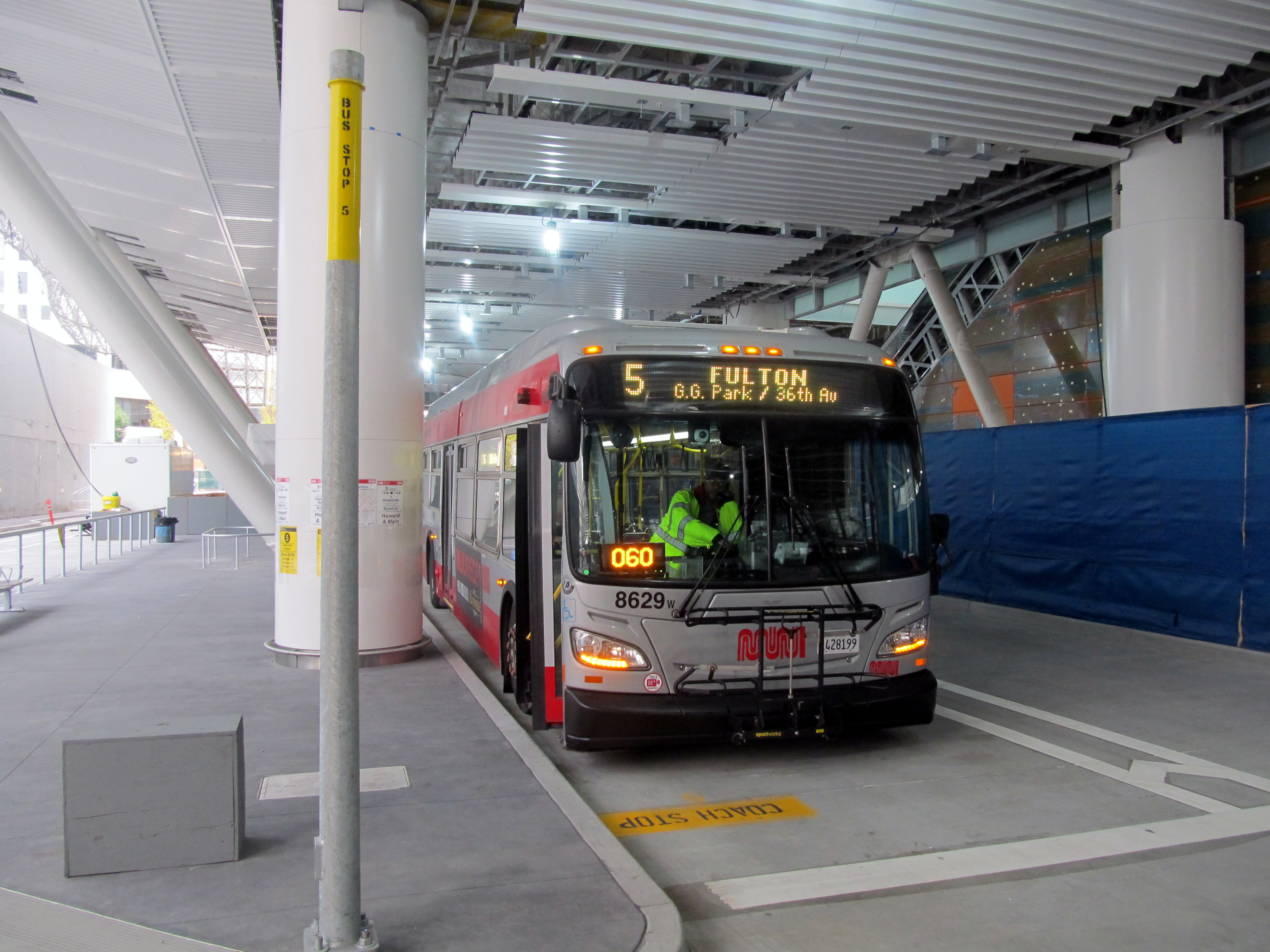 A Muni 5-Fulton bus at the Transbay Transit Center in January 2018. The route was moved to the still-under-construction terminal in December 2017 to meet a federal funding deadline.